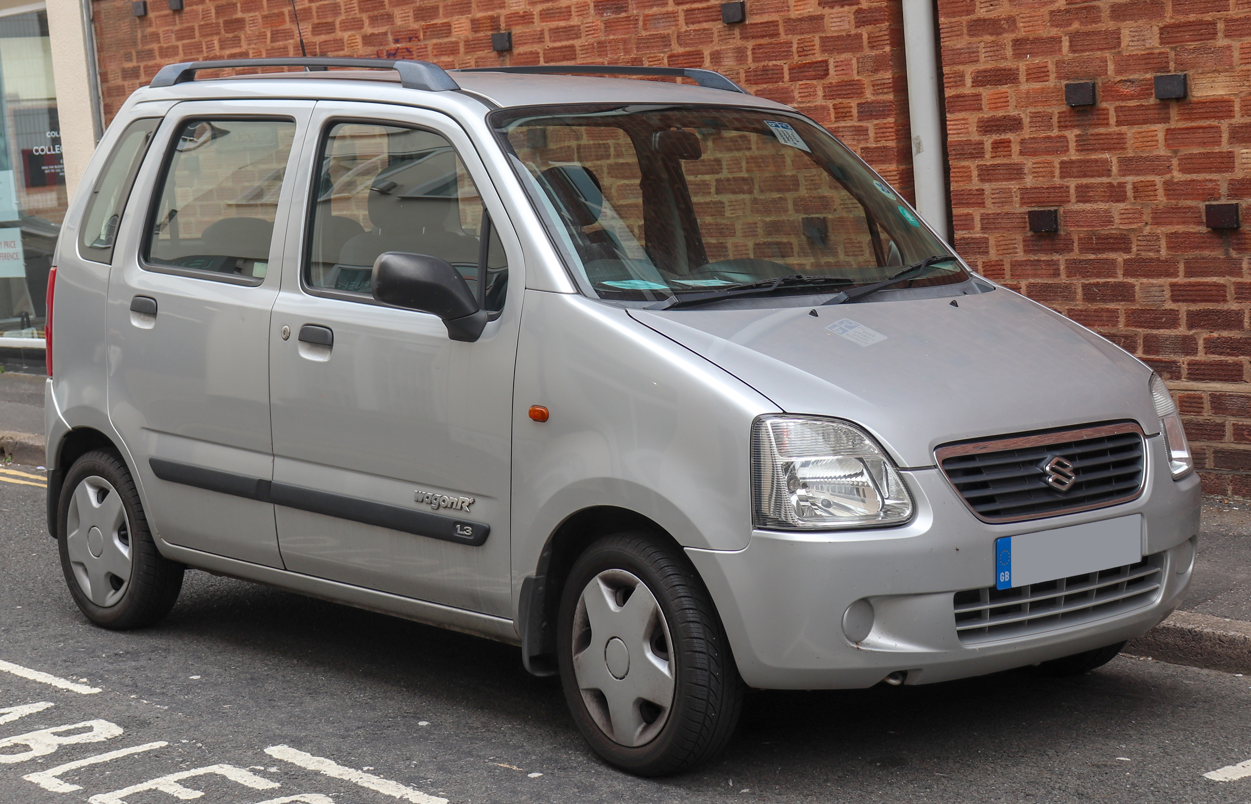 2003 Suzuki Wagon R+ GL Automatic 1.2 Front Taken in Leamington Spa